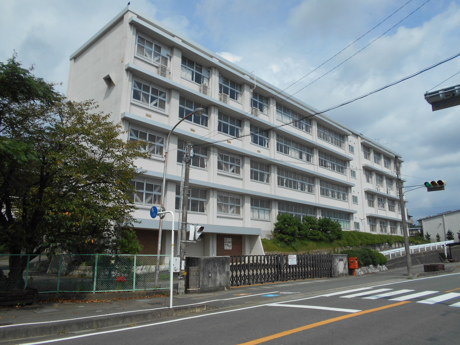 Shizuoka Prefectural Kiga High School - Hamamatsu